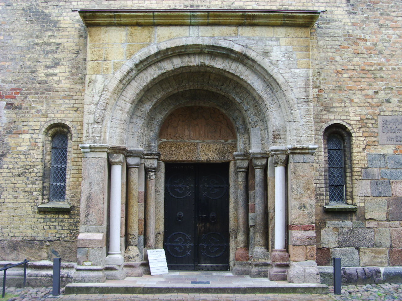 Cathedral of St. Peter in Schleswig, Germany.